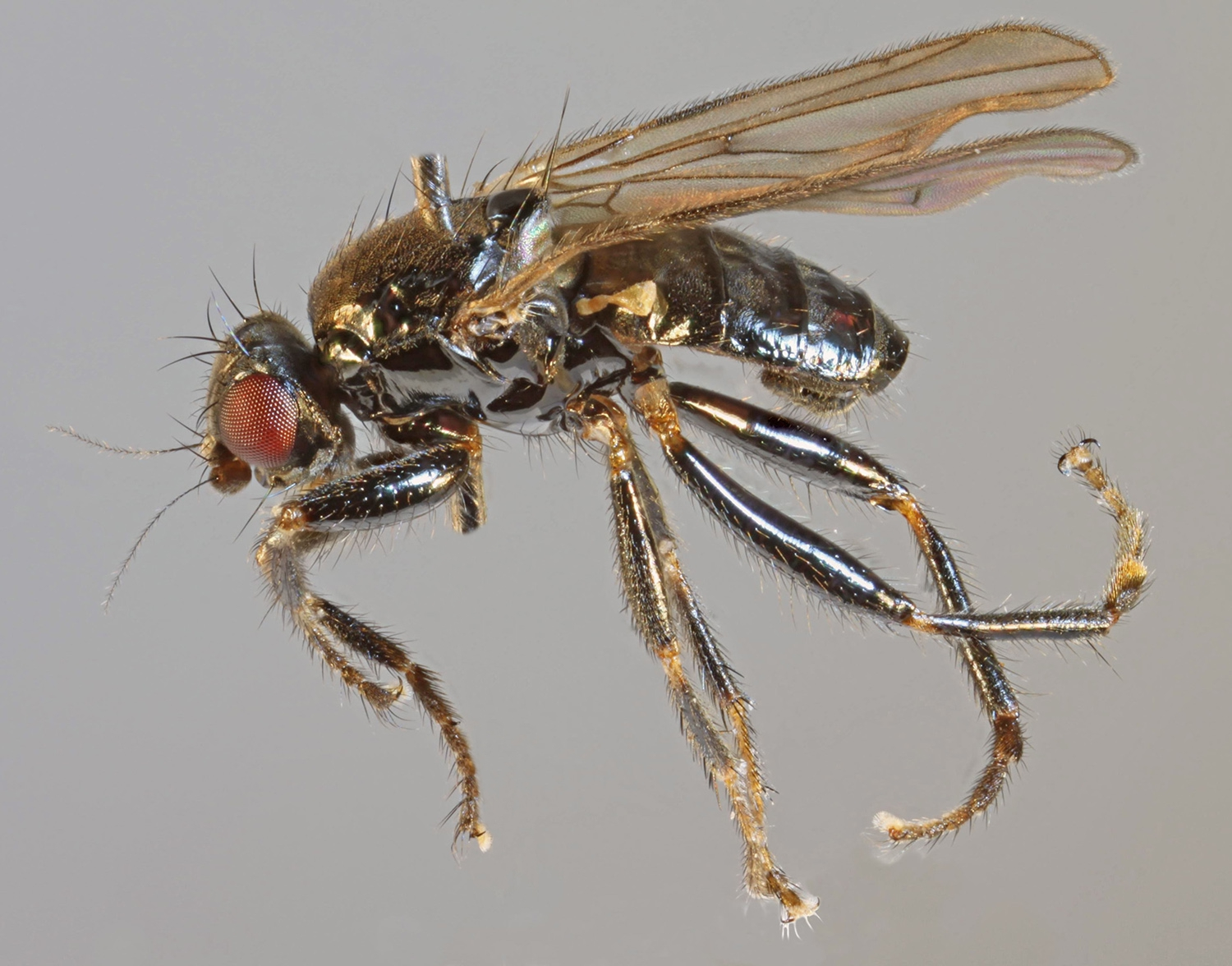 Crumomyia fimetaria, North Wales, March 2012